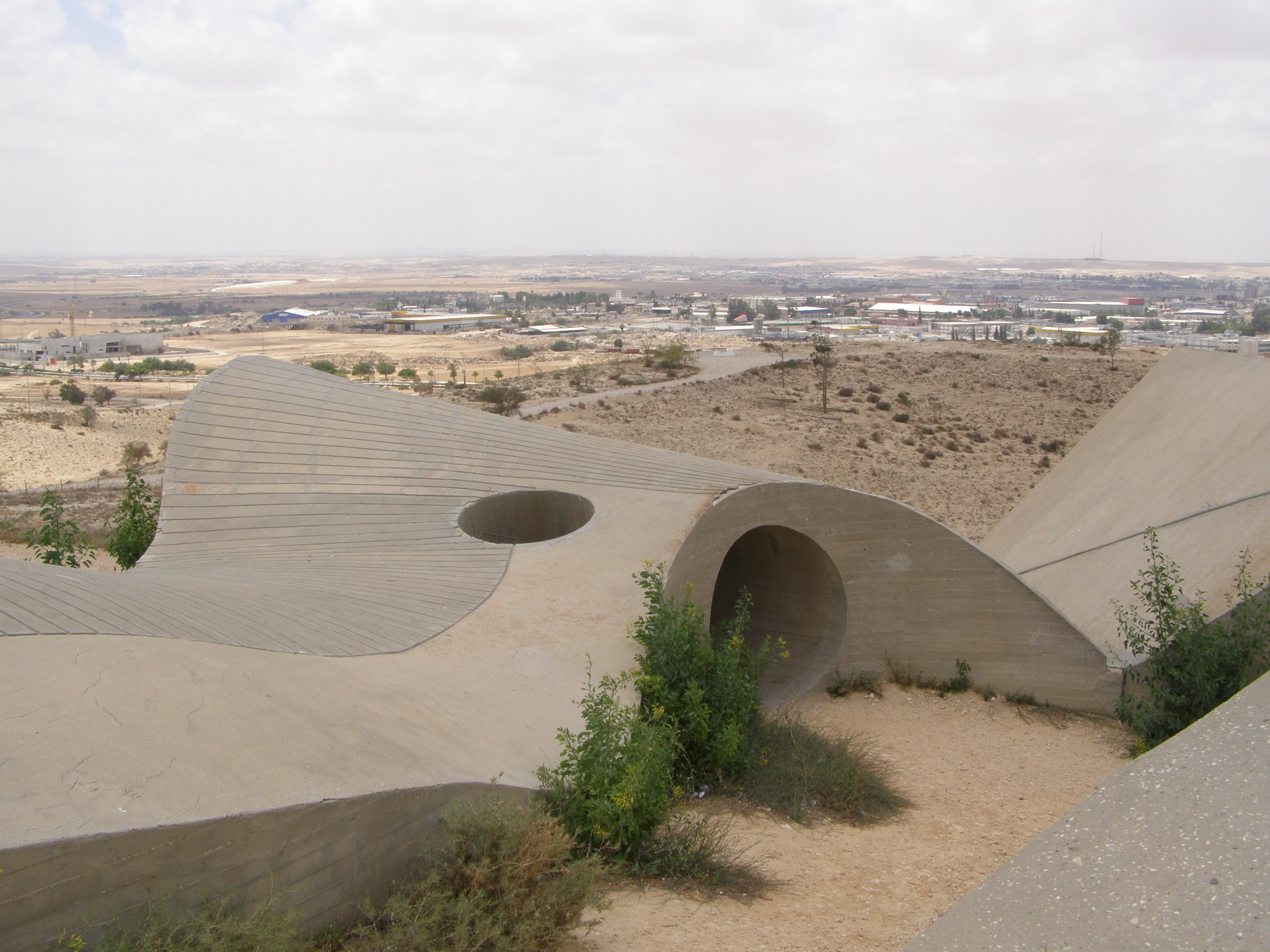 Beersheba, Monument to the Negev Brigade, Bunker